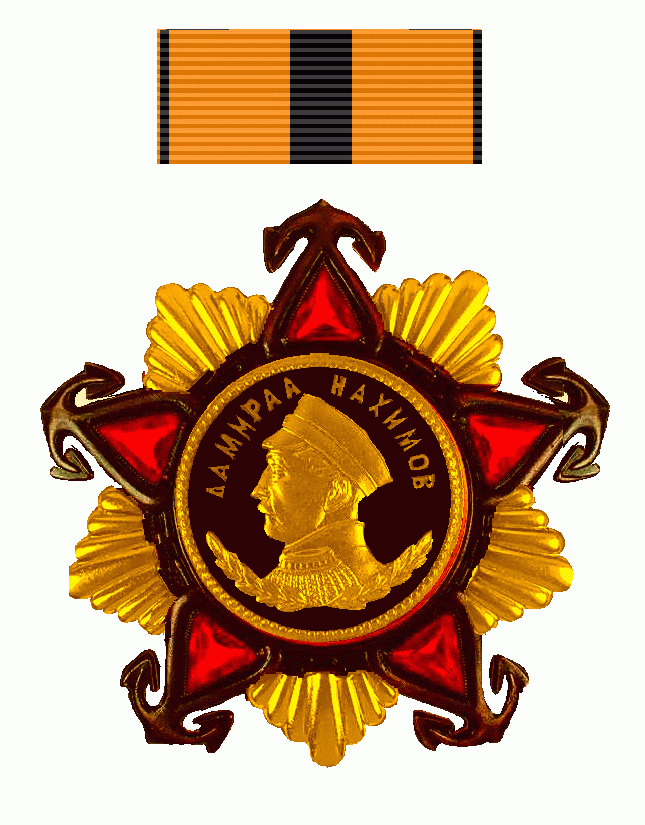 Order of Nakhimov Ist Class with ribon, the other foto's are to reddish.